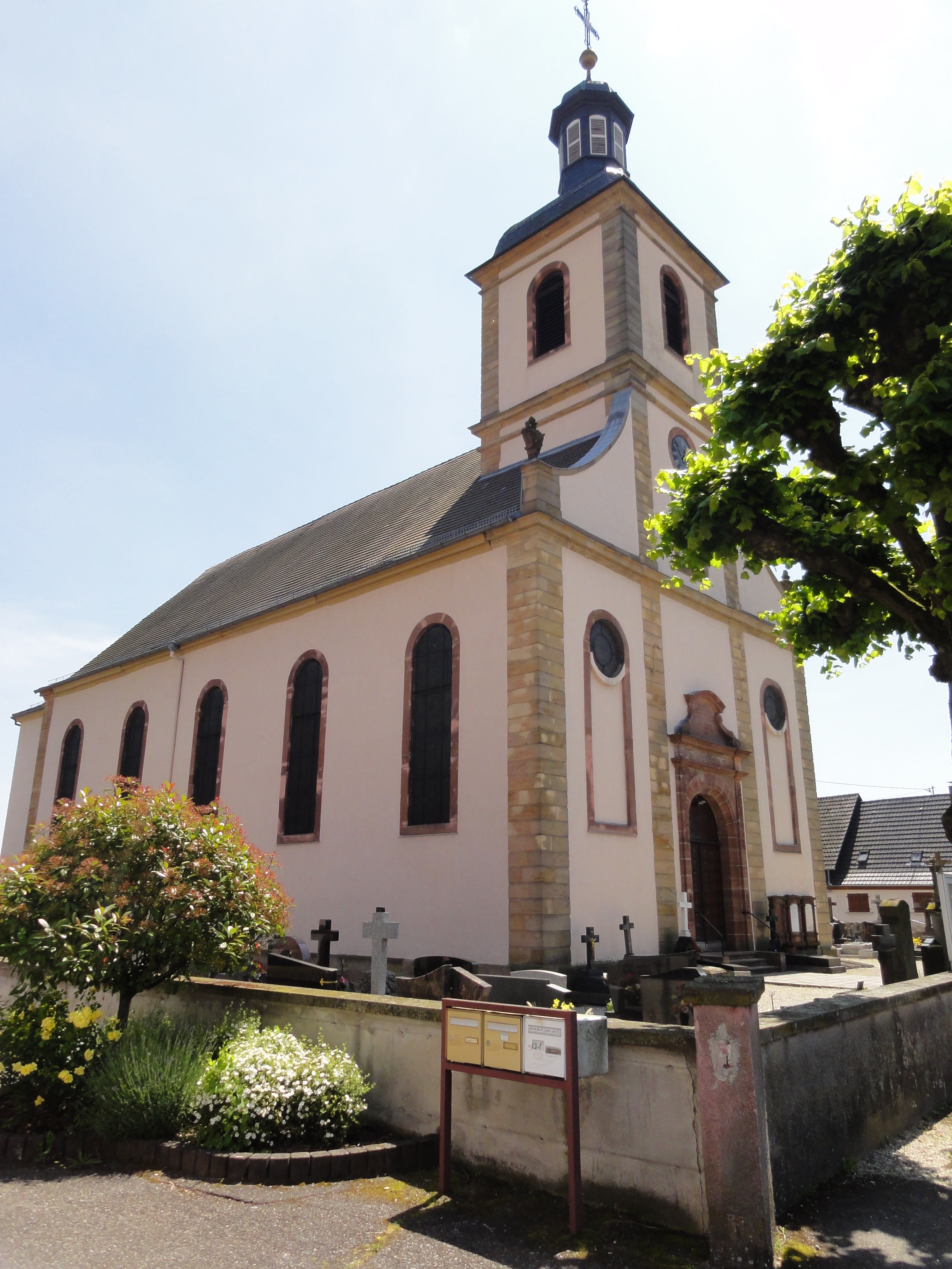 Alsace, Bas-Rhin, Rœschwoog, Église Saint-Barthélemy (IA00123756).